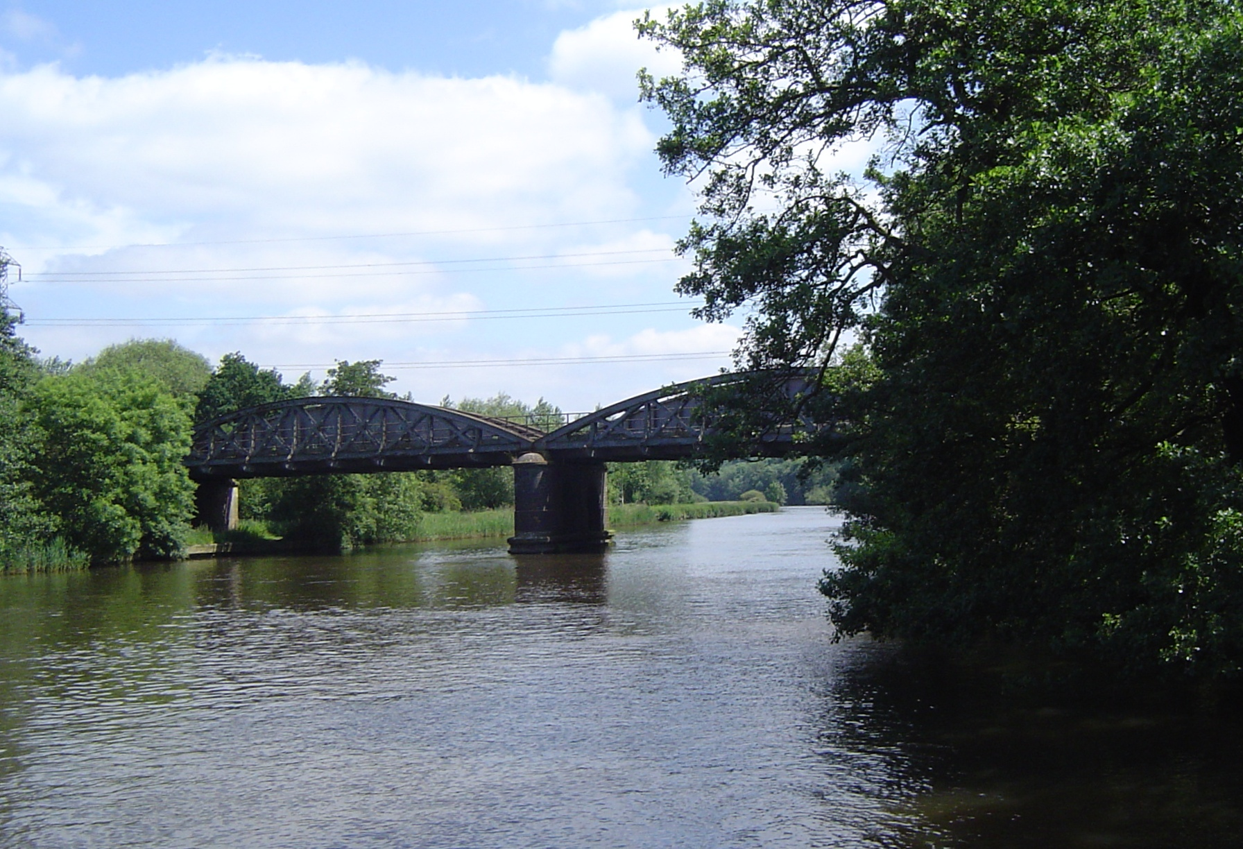 Nuneham Railway Bridge, carrying the Cherwell Valley Line over the River Thames between Nuneham Courtenay and Radley, Oxfordshire